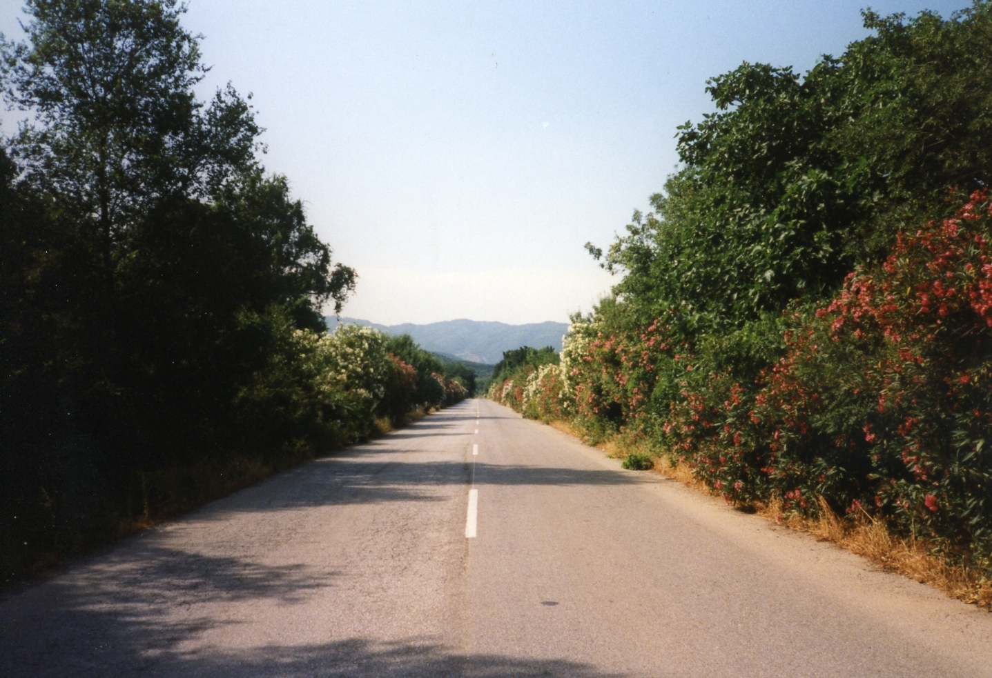 Greek National Road 16 (Thessaloniki-Ierissos-Ouranoupolis). Flowers on both sides of the road between Stratoniki and Ierissos.